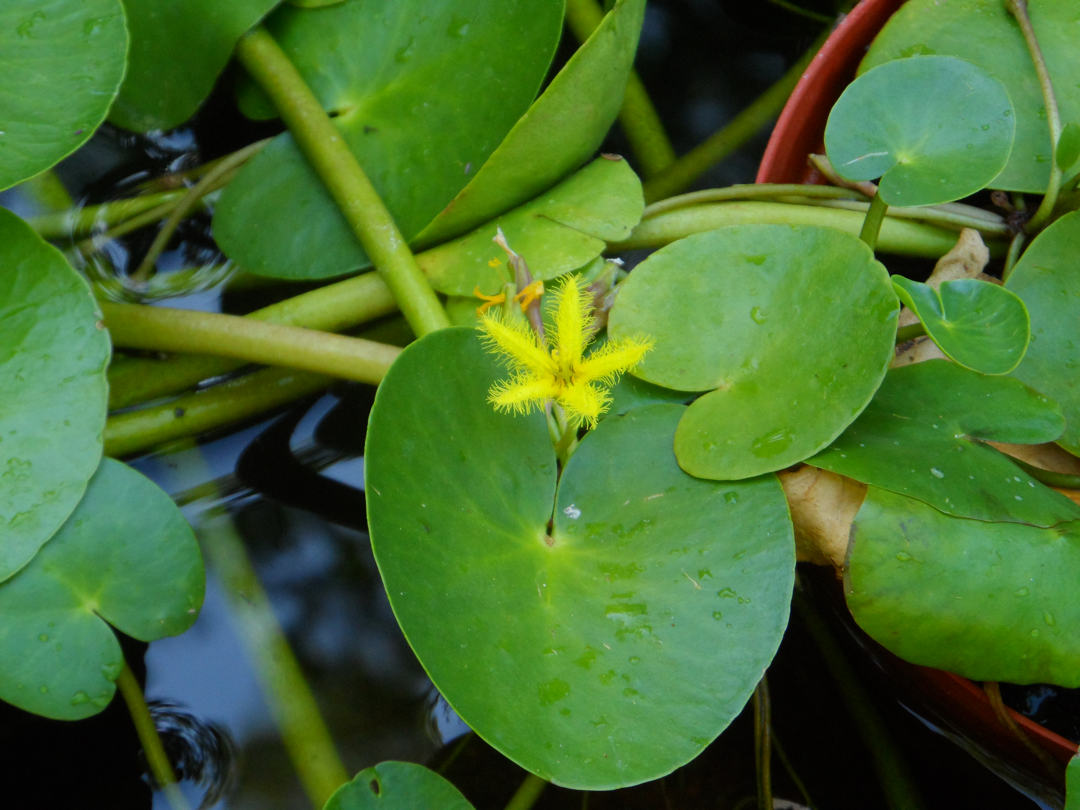 Floating hearts in Walter Sisulu National Botanical Garden